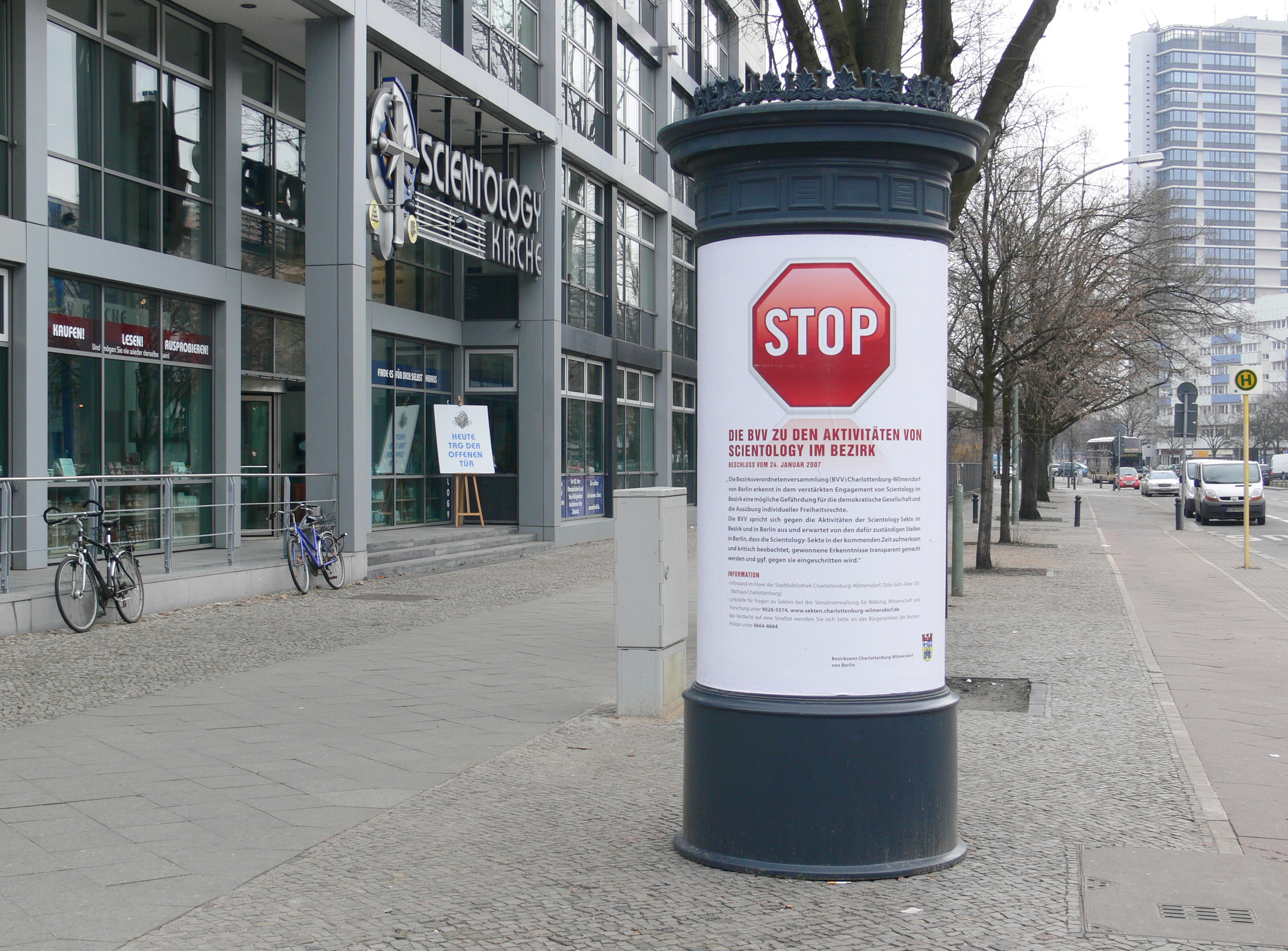 Poster of the Charlottenburg District Council placed in front of the German headquarters of the "Church of Scientology" in Berlin Charlottenburg, Otto-Suhr-Allee, Februar 2009. English translation STOP COMMENT BY THE DISTRICT COUNCIL ON THE ACTIVITIES OF SCIENTOLOGY IN THE DISTRICT RESOLUTION DATED 24 JANUARY 2007 “The District Council (DC) of the Berlin district of Charlottenburg-Wilmersdorf takes the view that the increased activities of Scientology in the district pose a potential danger to democratic society and the exercise of individual freedom rights. The DC is opposed to the activities of the Church of Scientology in the district and in Berlin and expects the appropriate bodies in Berlin to ensure that the Scientology sect will be put under close and critical observation, that any intelligence gathered will be made transparent, and that actions will be taken against it where appropriate.” INFORMATION Information display in the foyer of the Charlottenburg-Wilmersdorf City Library, Otto-Suhr-Allee 100 (Charlottenburg City Hall). Advice centre for sect-related questions at the Senate Administration for Education, Science and Research on 9026–5574, If you suspect that a crime has been committed, please contact the citizens' hotline of the Berlin Police on 4664–4664